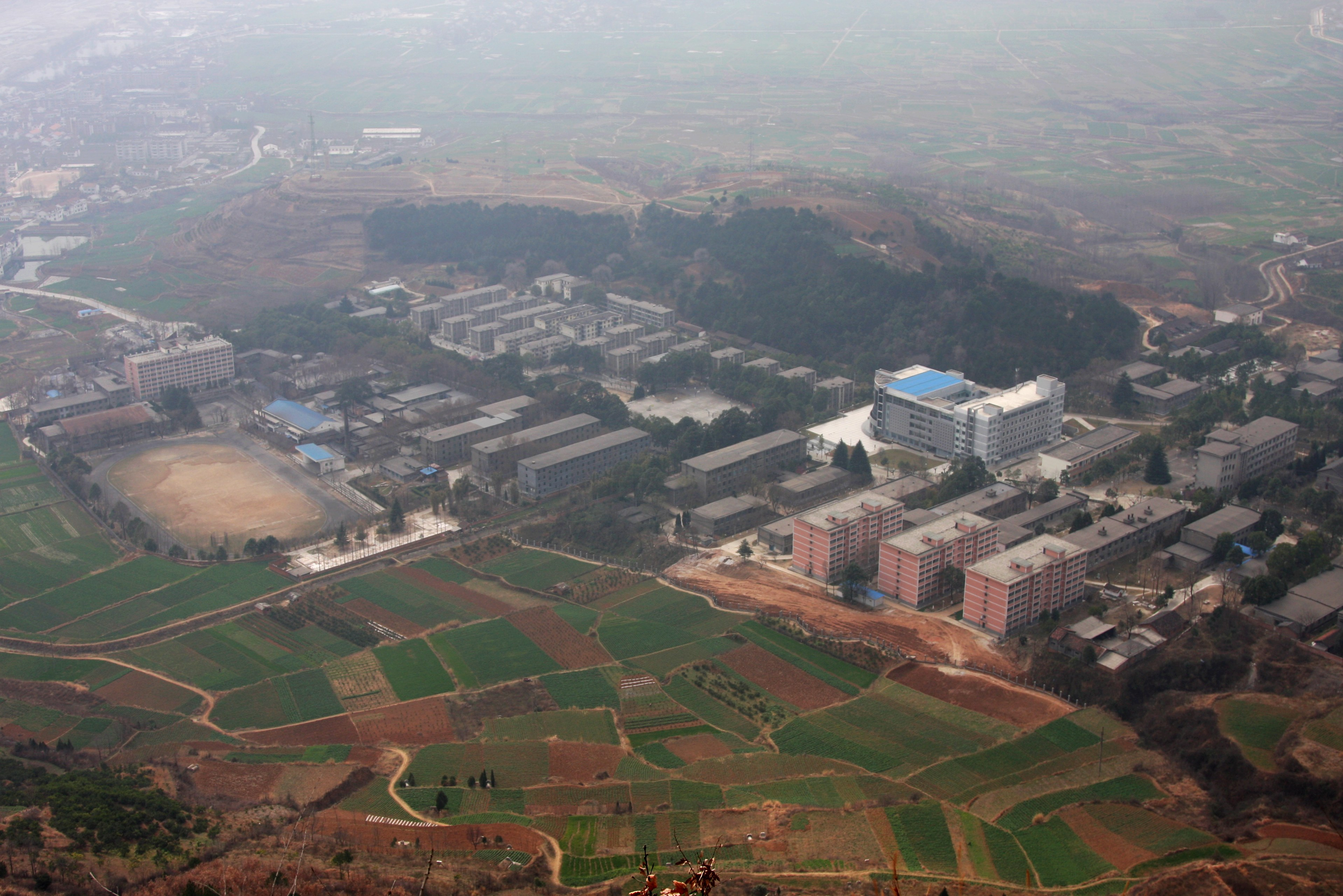 The north campus of Shaanxi University of Technology